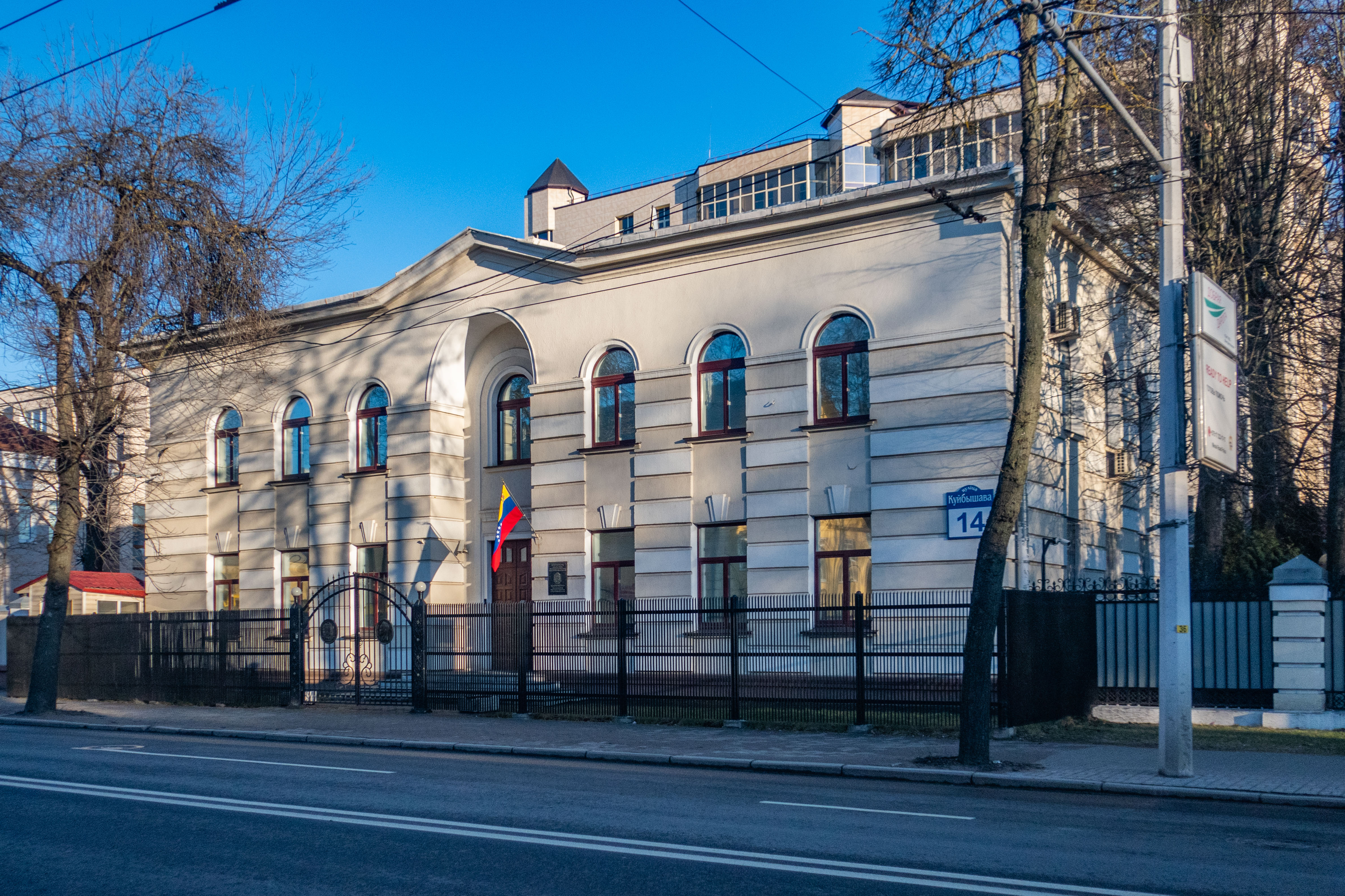 Embassy of Venezuela in Belarus. Minsk, Belarus